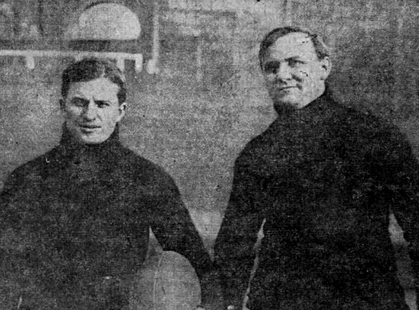 Multnomah Athletic Club football players Floyd Cook (left) and Paul Rader (right) in 1907. Rader would become an Evangelist later in his live.